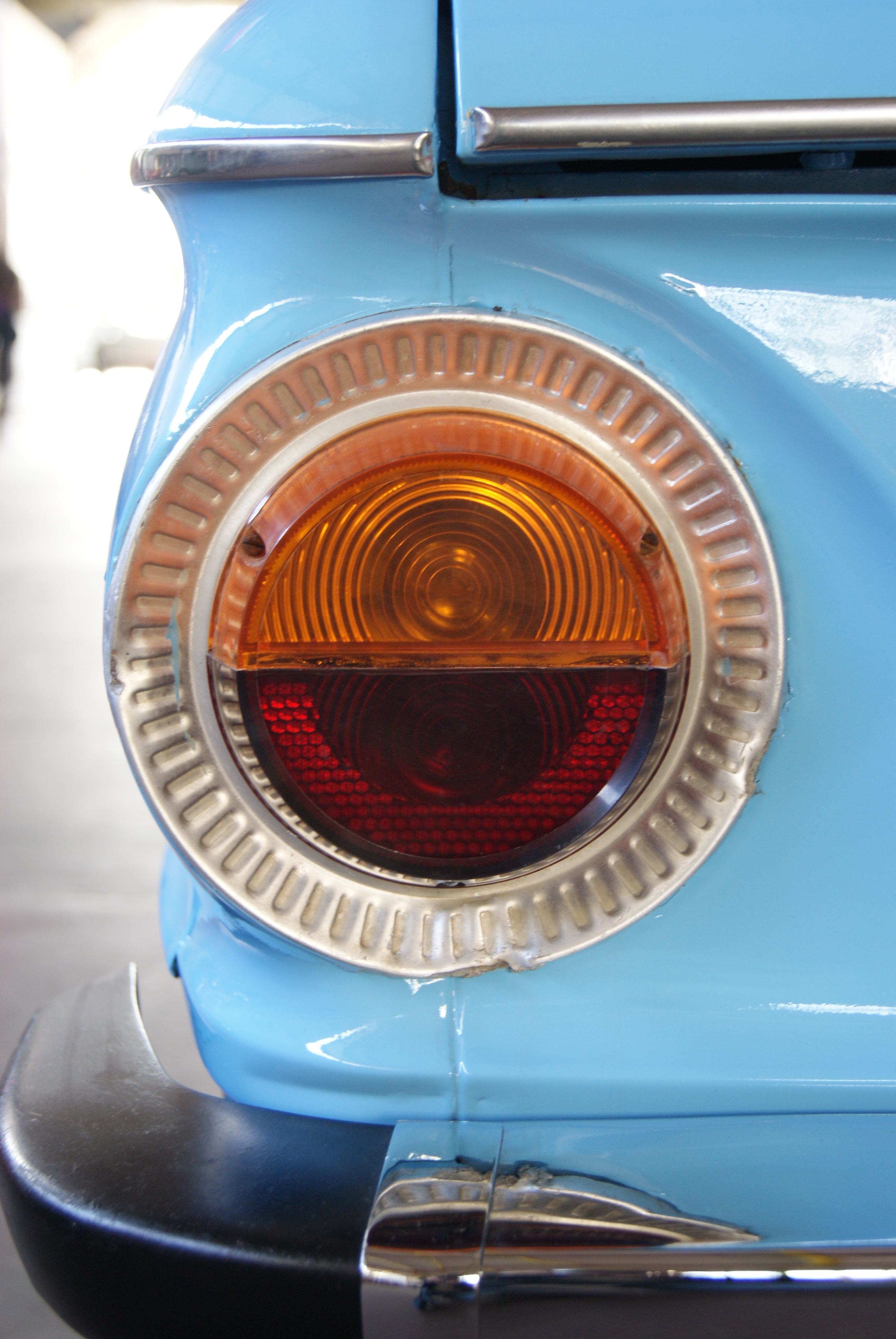 ZAZ-966 Tail light.